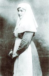 WWI nurse Nigar Şıxlinskaya